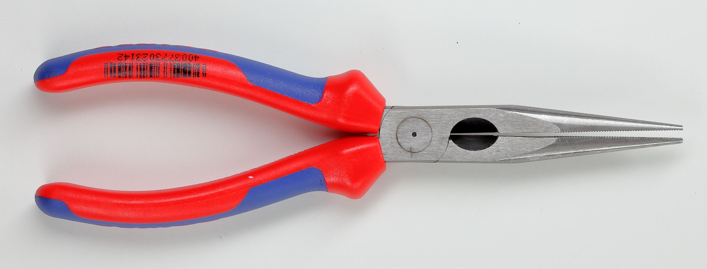 Long Nose Plier